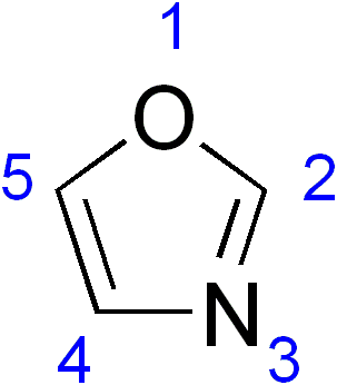 Oxazole (numbered)